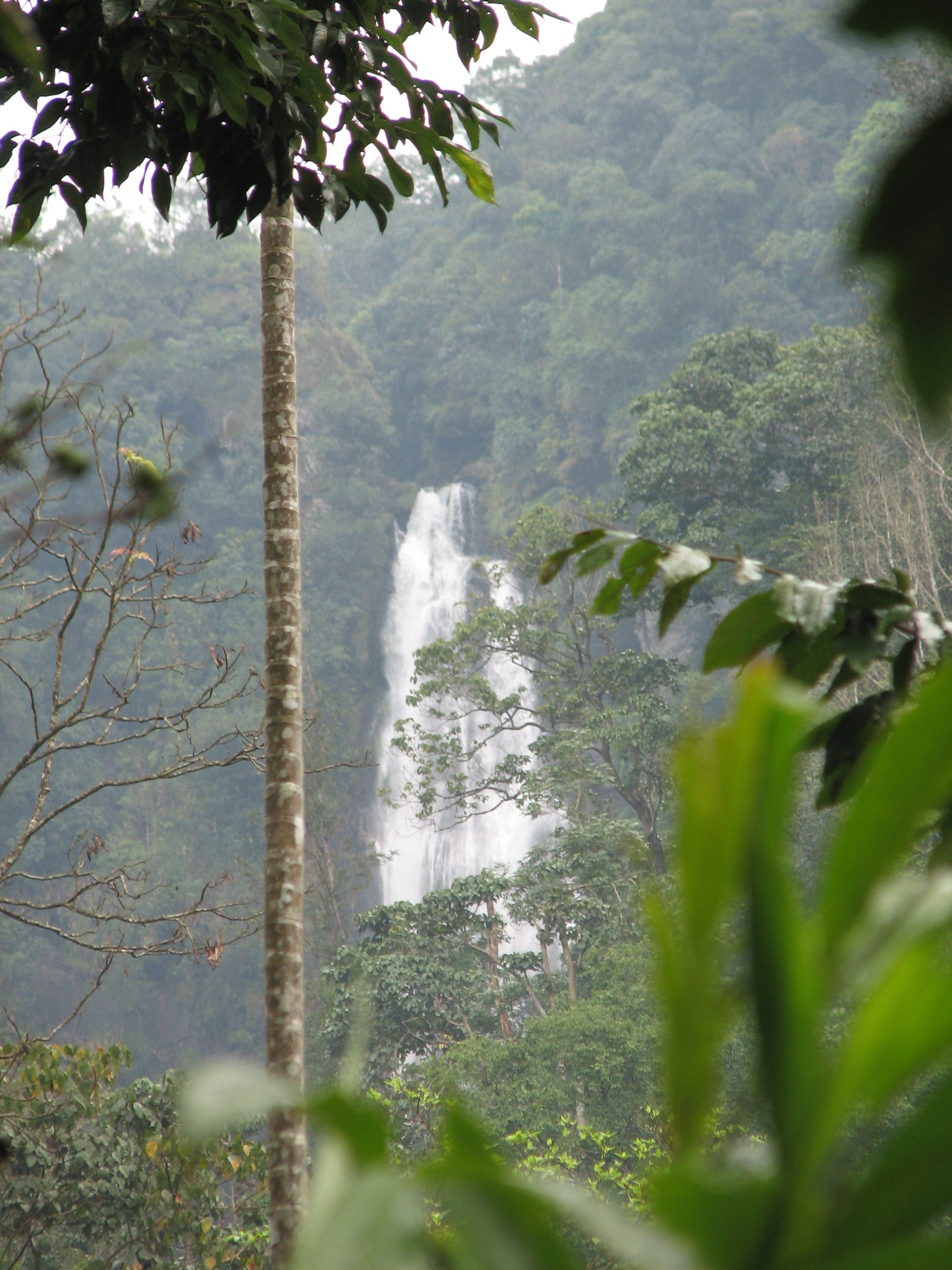 Hebbe falls located in Western Ghats, Karnataka